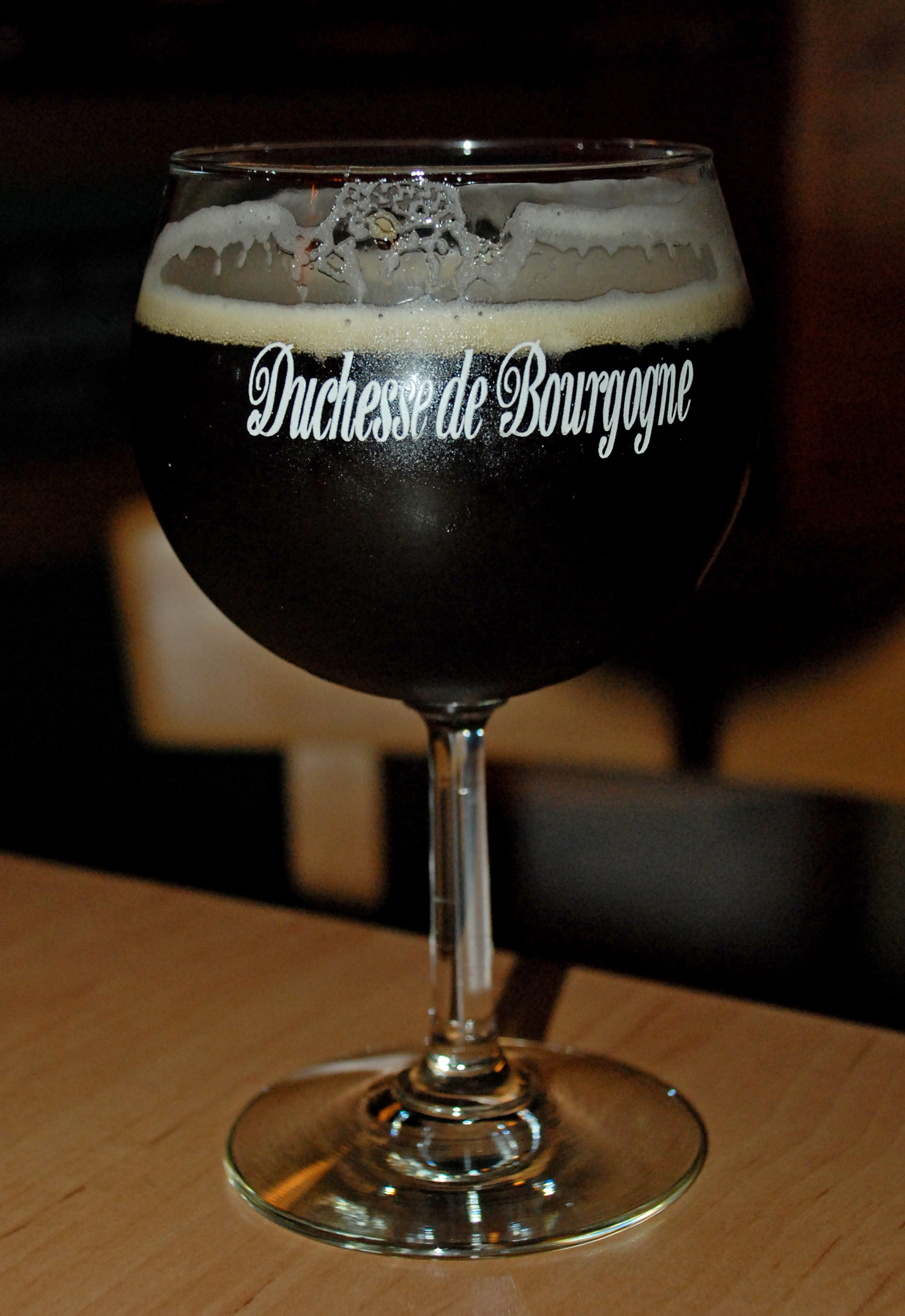 Duchesse de Bourgogne, Belgian beer